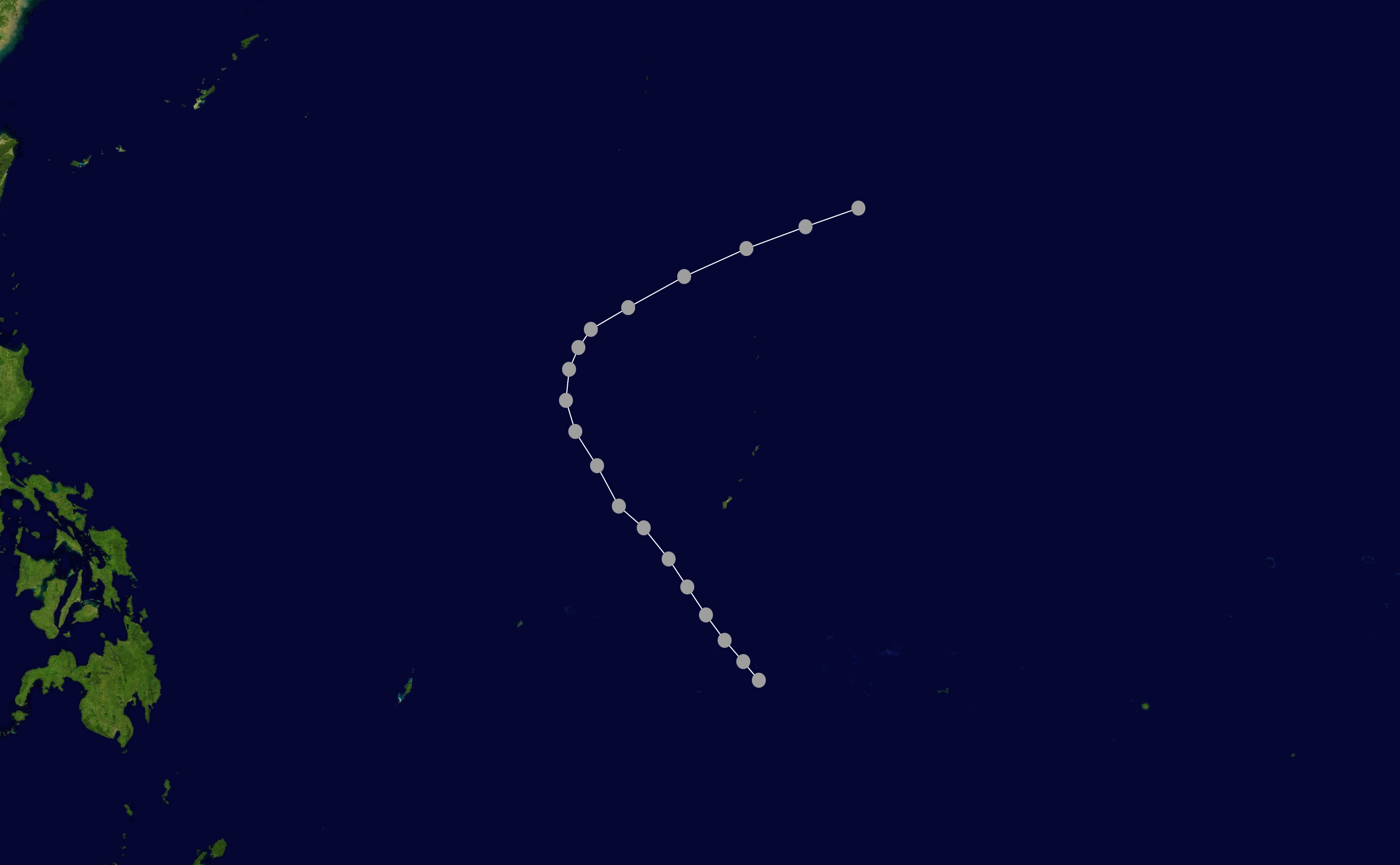 Track of 28-W from December 22, 1939 through December 27, 1939. Due to the age at witch this storm was observed from, one cannot rely on this track to be 100% accurate, but rather just a reference as to where the storm happened and the relative direction it traveled.